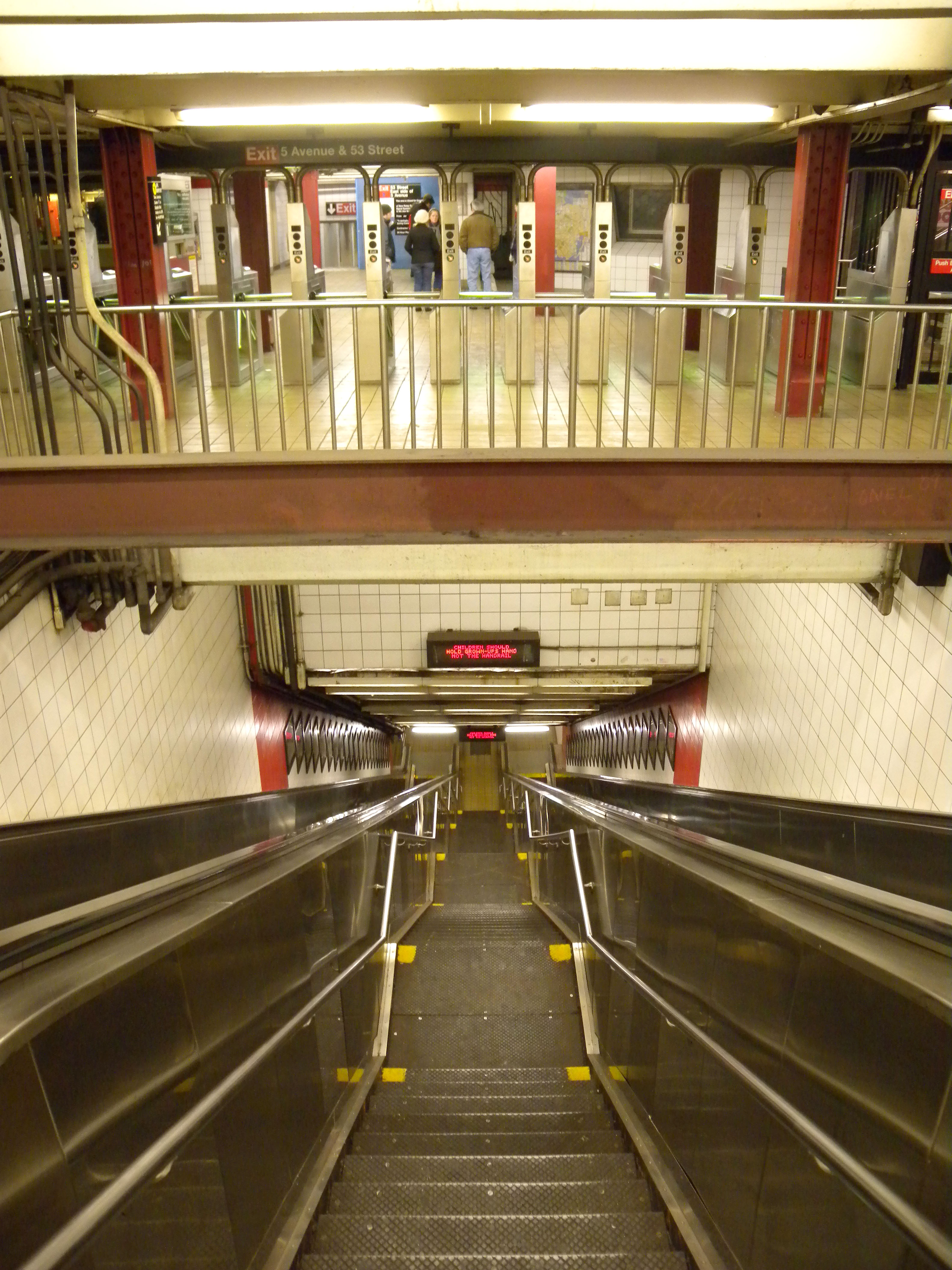 Looking east down long stairway between escalators of IND 5th Avenue 53d Street station.